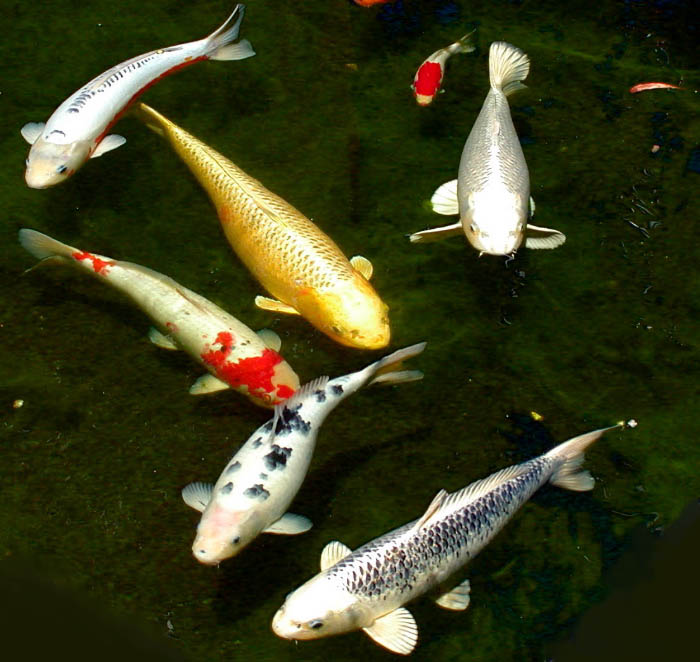 Photo of six different types of Koi. This photograph depicts six koi (plus one goldfish) of a collection of ten living in a private outdoor ornamental freshwater pond in San Jose, California. The pond is about 45 cm (18 in) deep, which is shallower than ideal - it was not originally designed for koi. The largest fish seen is the yellow ogon at about 50 cm (20 in) long; it was four years old at the time of the photo. Fish types in this picture, from top to bottom shusui (blue with red streaks) a goldfish (the small red and white fish) diamond platinum ogon (white) ogon (yellow) kohaku (red on white) bekko (black on white) gin matsuba (silver matsuba)